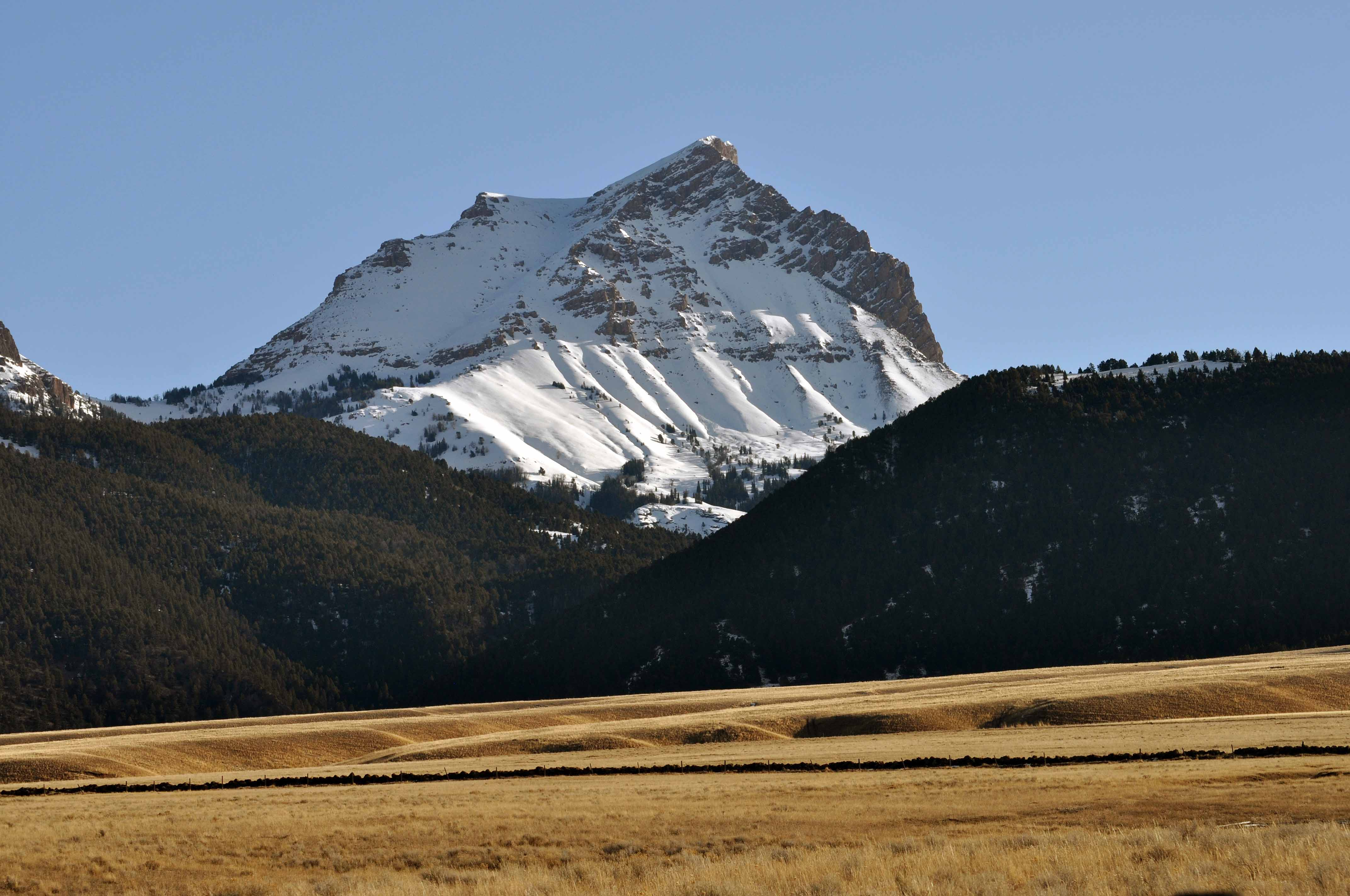 Sphinx Mountain Madison Range Montana, January 2015 from Bear Creek Road